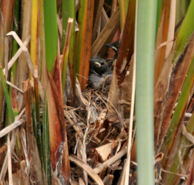 White-browed Wagtail or Large Pied Wagtail Motacilla maderaspatensis in Hyderabad, India.